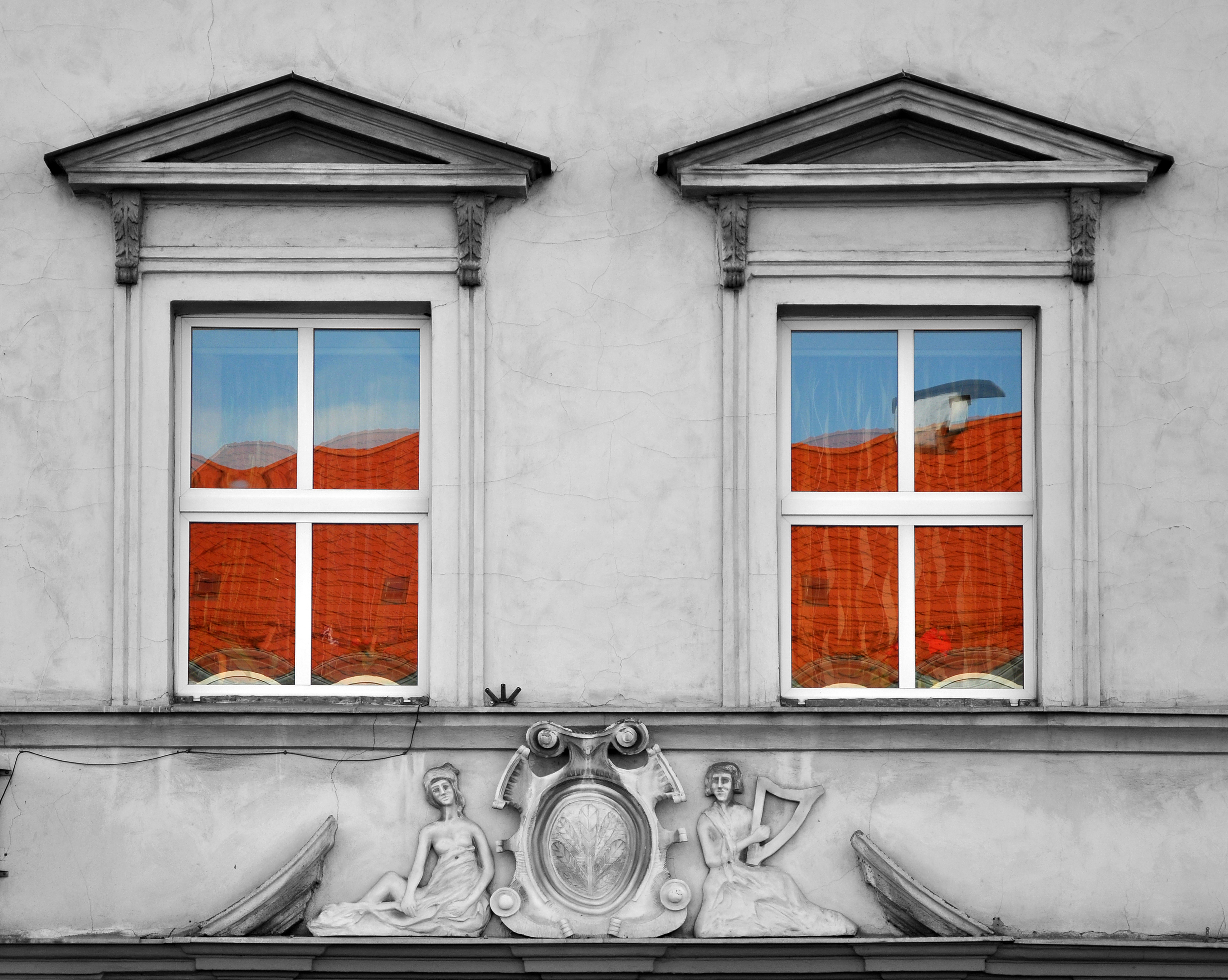 22 Market Square in Ząbkowice Śląskie, windows and stuccos